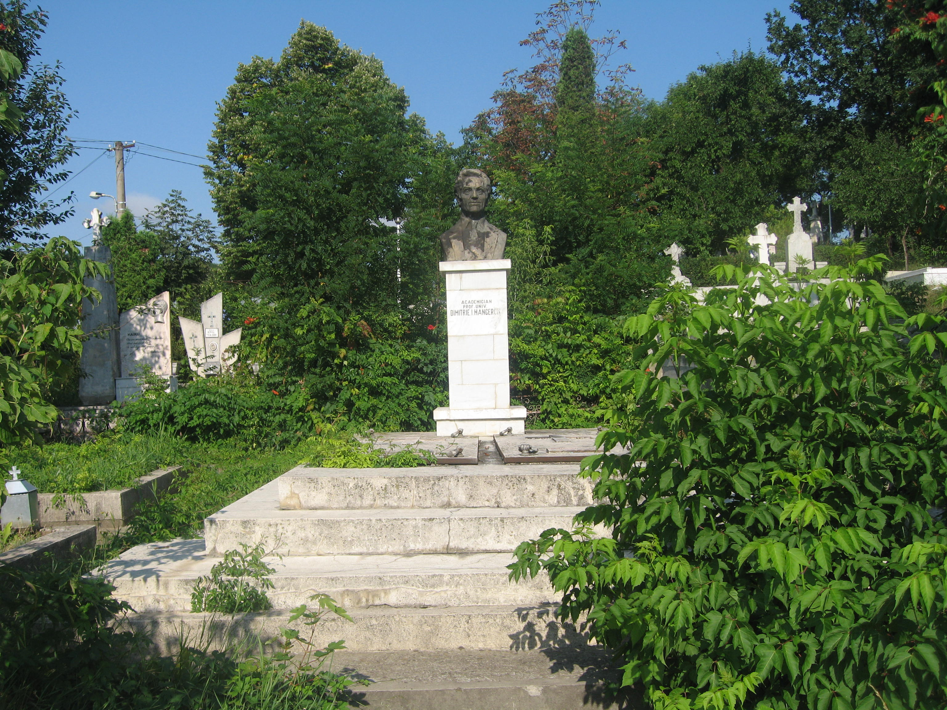 Dimitrie Mangeron